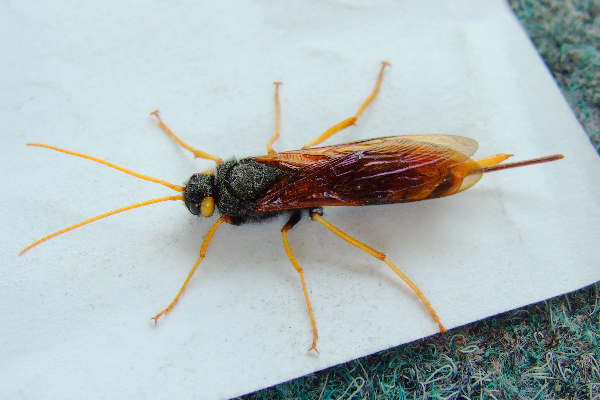 Giant Woodwasp in Bahrenfeld, Hamburg.